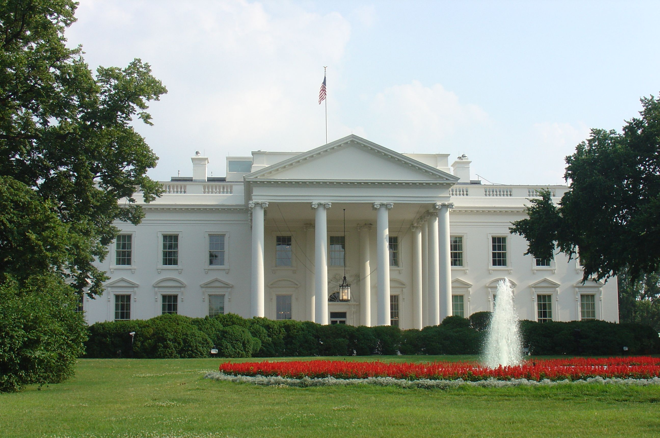 The North side of the White House.